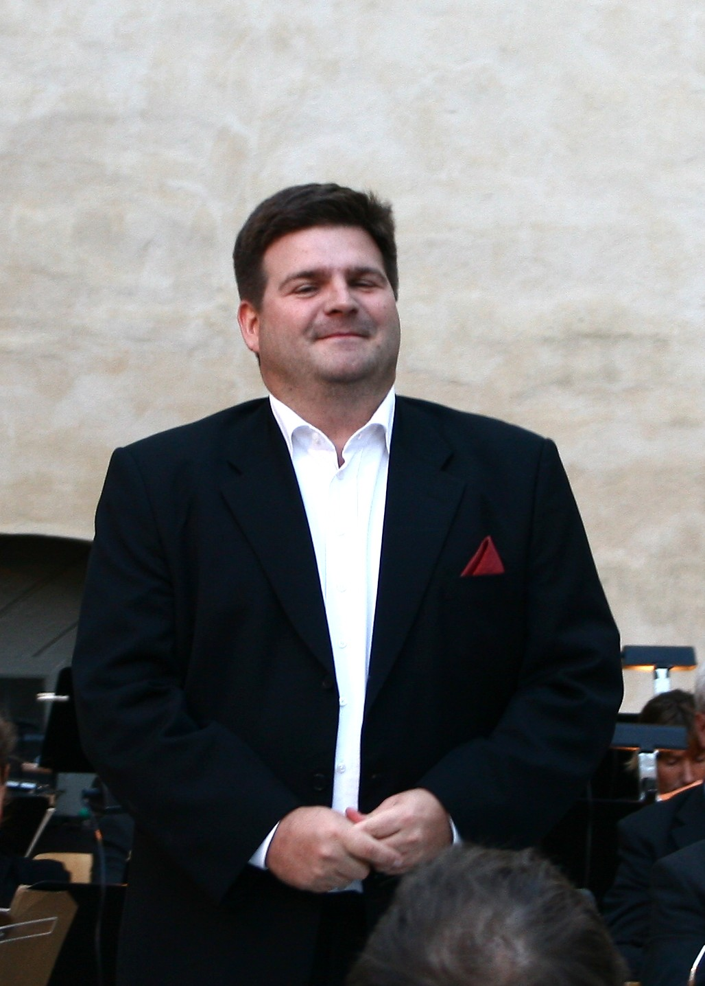 Michael Weinius (born 1971), Swedish tenor. At the festival Östergötlands musikdagar 2009, at Linköping castle, Linköping, Sweden.